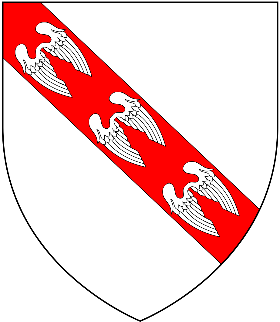 Arms of Wingfield: Argent, on a bend gules three wings conjoined in lure of the field (quartered by de la Pole)